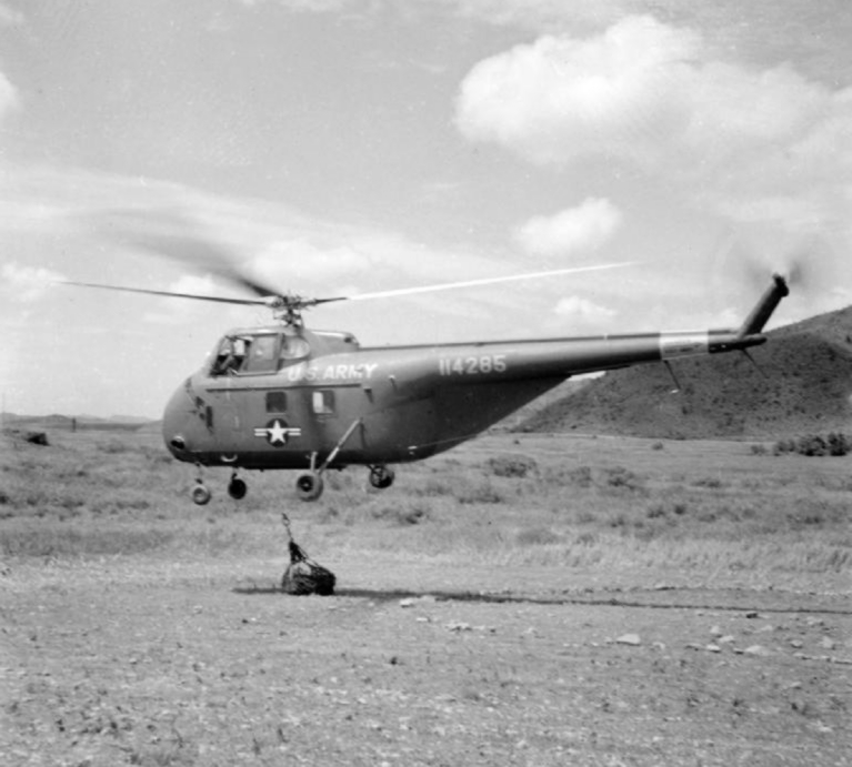 A U.S. Army Sikorsky H-19C Chickasaw helicopter (s/n 51-14285) dropping supplies of Ordnance QF 25 pounder field gun shells at a Commonwealth Division ammunition dump a few kilometres behind the Korean War front line.